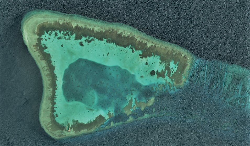 Ardasier Reef is a part of Ardasier Bank in the Spratly Islands.